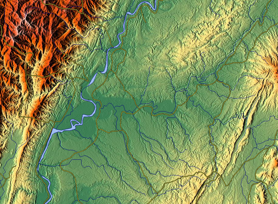 Map of Homalin Township area, Burma Geographic limits of the map: N: 25.266° S: 24.433° W: 94.504° E: 95.758°